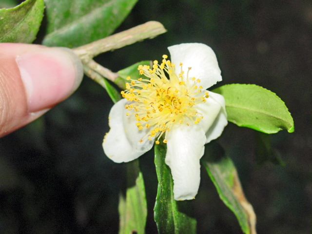 Tea flower taken in Rio de Janeiro Botanical Garden. Photo by M. A. P. Accardo Filho.